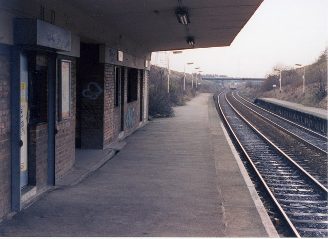 Moston station becoming derelict By February 1989, the main building's rendering had disappeared and the waiting room had had all breakables removed, effectively leaving a brick-lined space. In terminal decline.